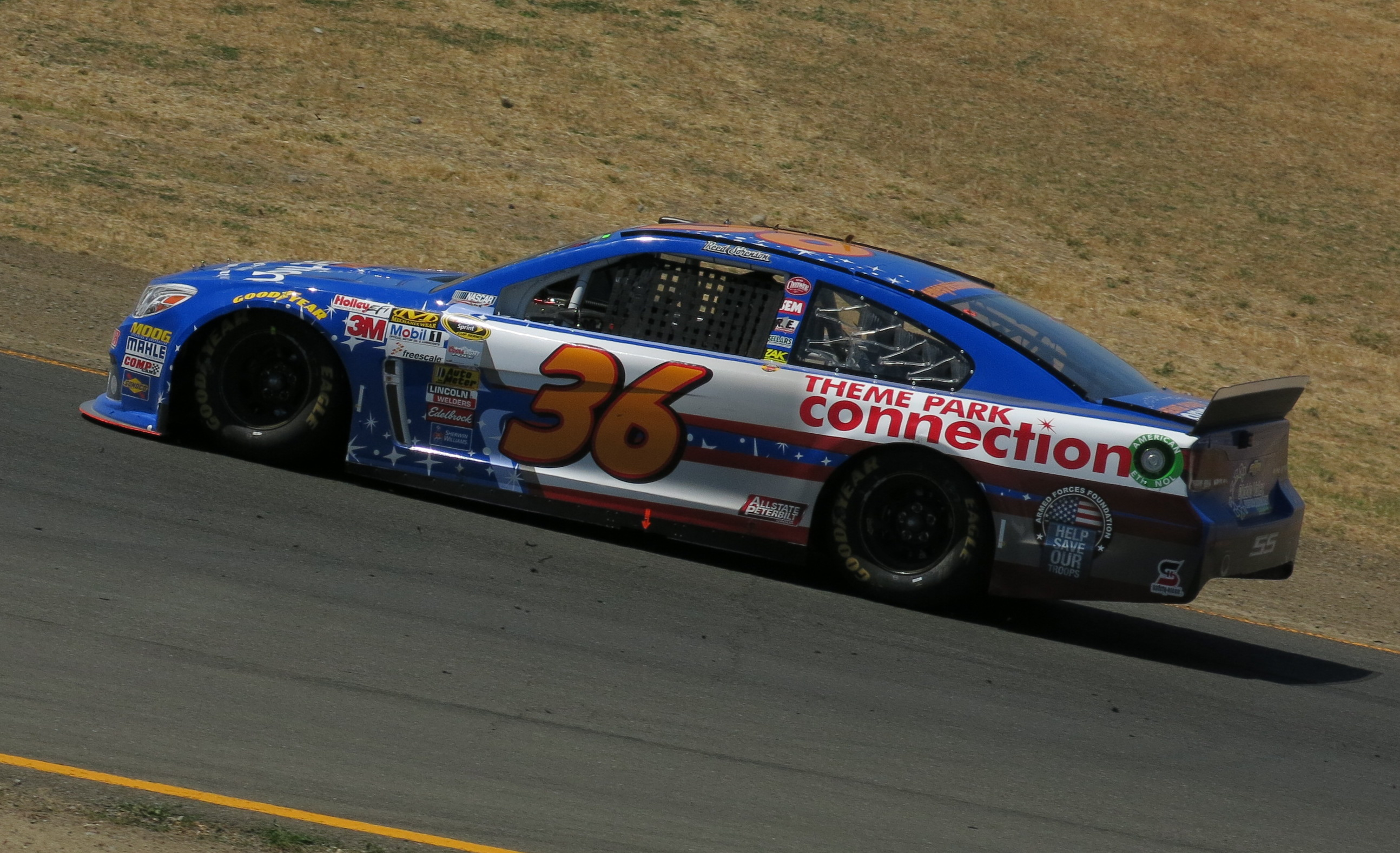 Reed Sorenson's No. 36 Theme Park Connection Chevrolet at Sonoma Raceway in 2014